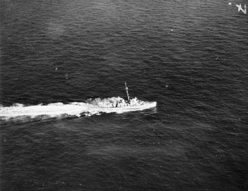 The Royal Navy during the Second World War HMS MOORSOM, steaming at sea.